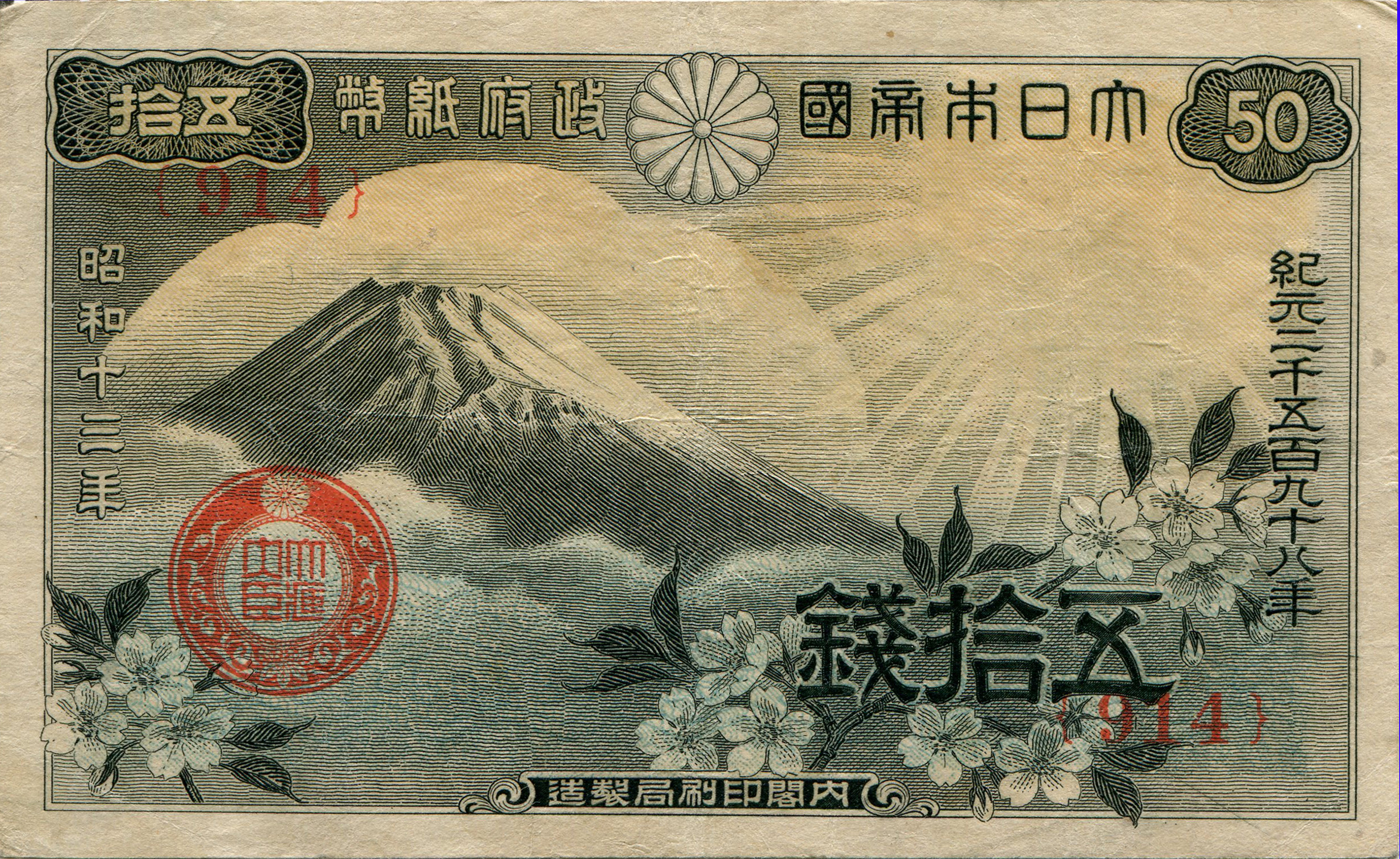 Japanese government small-face-value paper money, "Fuji-Sakura" 50 Sen (1/2 Yen). Mt. Fuji and cherry blossom. First issued in 1938. Expired in 1948. 65mm x 105mm.